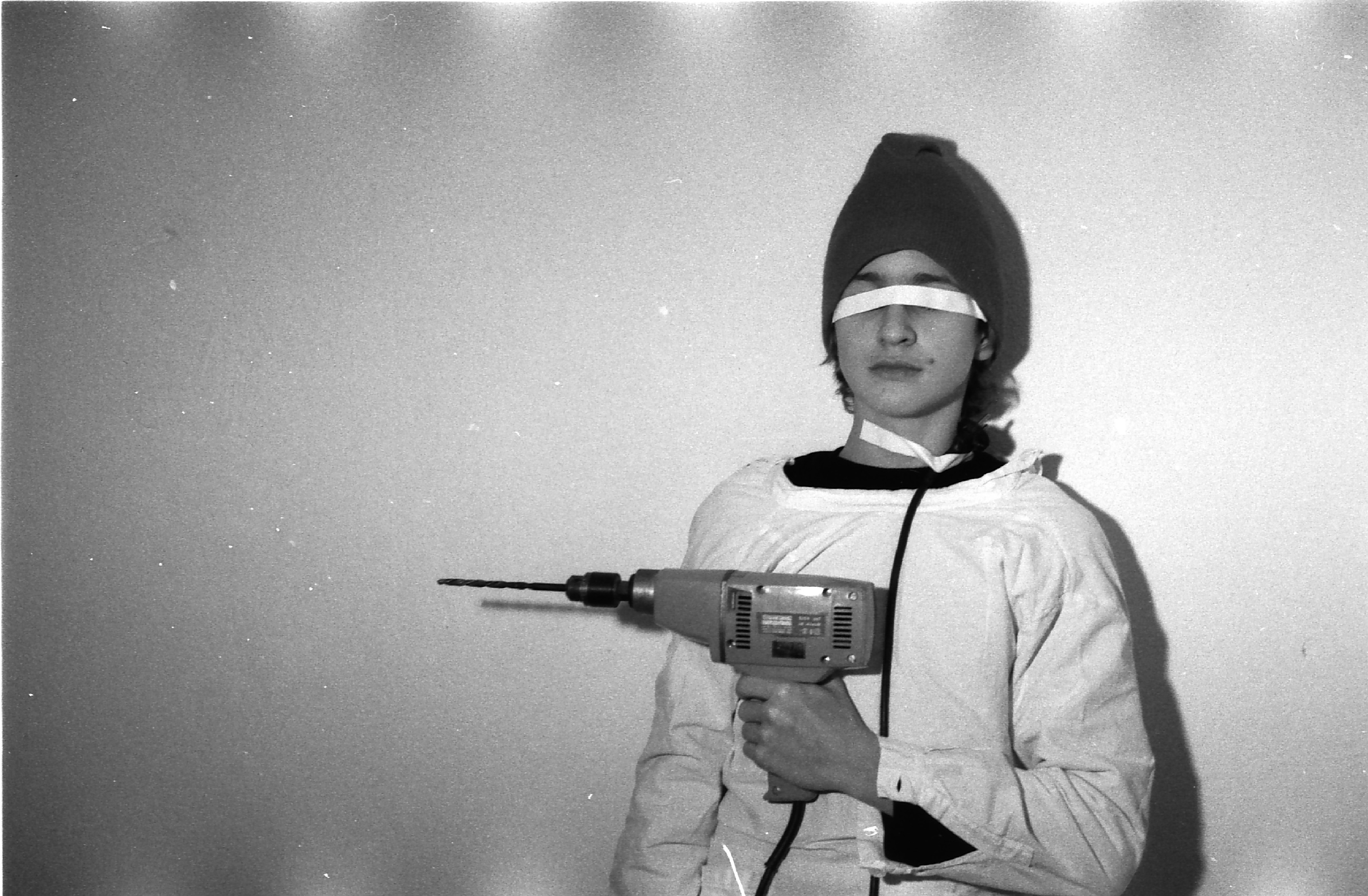 Alexander Hacke, January 1980 in Berlin, BLASSE sound and styling experiment